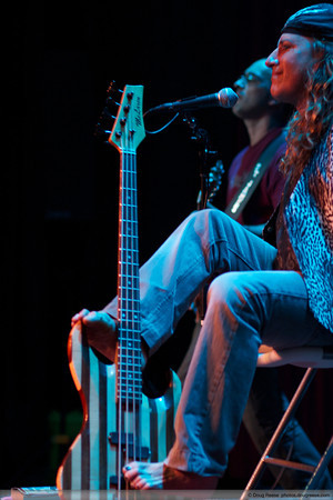 Mark Goffeney at 2011.